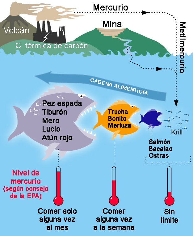 This figure shows some common sources of mercury, the conversion to toxic methylmercury and the outline of EPA consumption recommendations for certain types of fish based on mercury levels. The original caption stated: "Mercury from coal fired power plants and other sources travels through the atmosphere and water. Some is changed to methylmercury, which can enter the food chain to be concentrated at each step on that chain. Large old predators like sharks and pike, or scavengers like halibut, hold the greatest concentrations of mercury. The mercury is particularly problematic during development, so these limits here are designed to protect women who might become pregnant and children 12 or younger." (labels in Spanish)